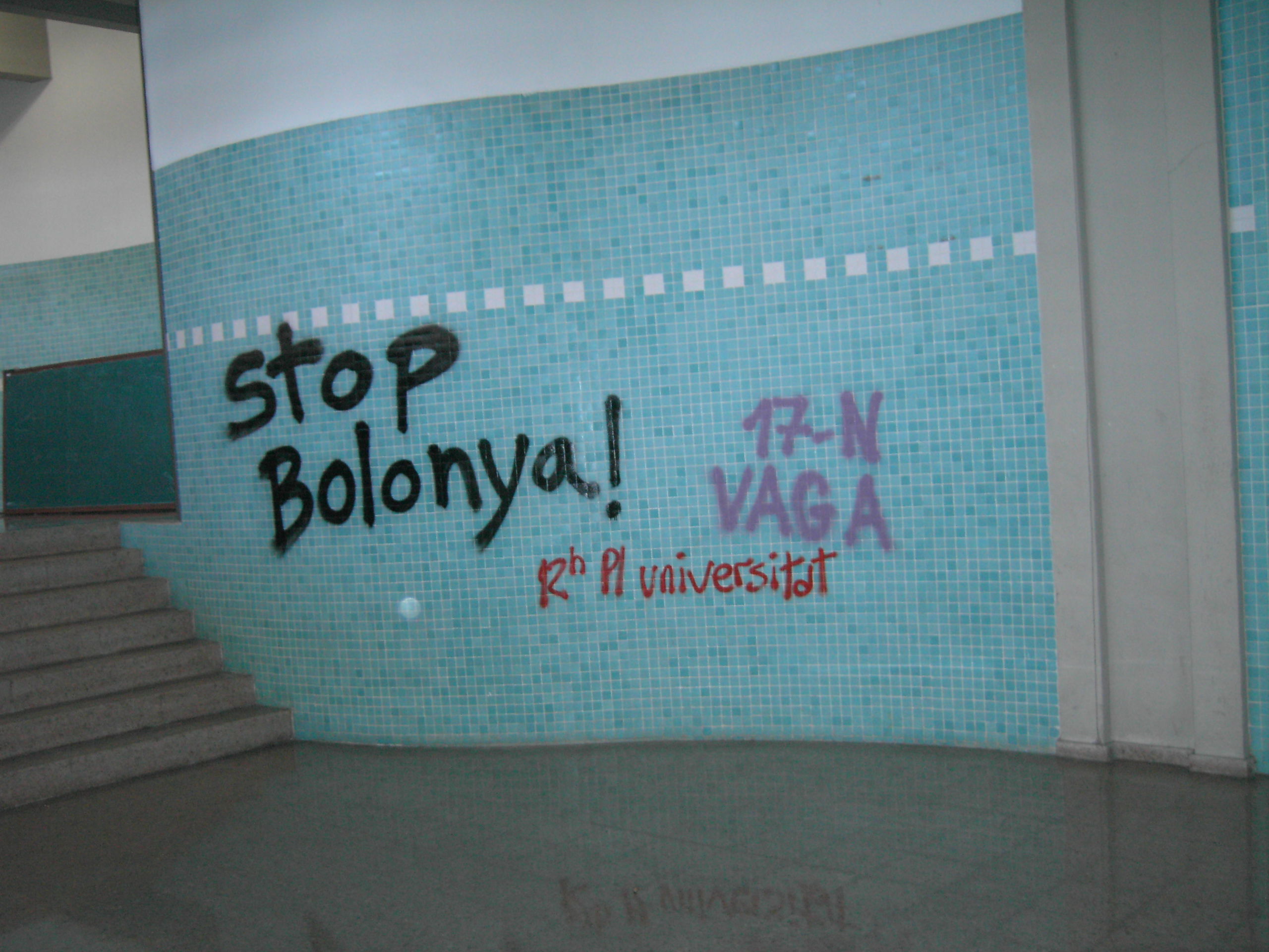 Graffiti against Bologna process. UAB (Autonomous University of Barcelona), Barcelona, Catalonia(Southwestern Europe)